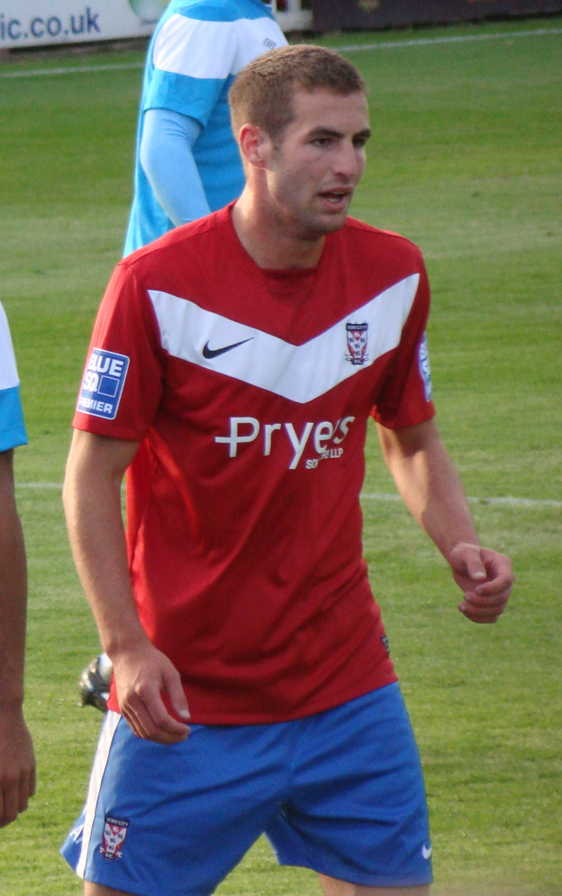 Matty Blair playing for York City against Sunderland at Bootham Crescent, York on 13 July 2011